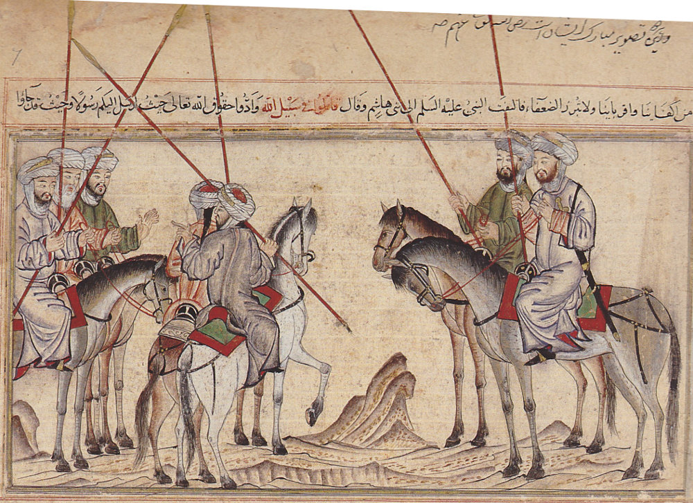 Battle of Badr, Il-Khanid: Tabriz Khalili Collection, MSS. 727, folio 66a